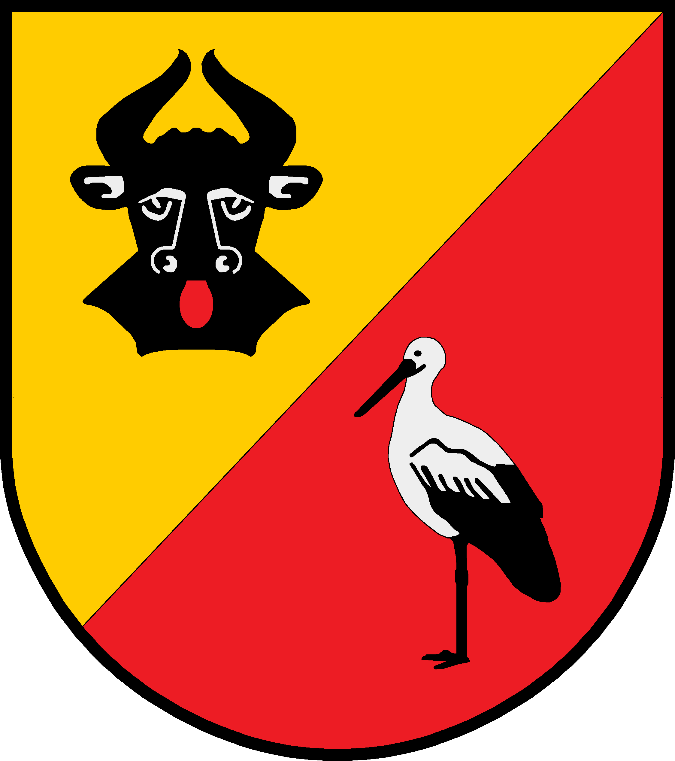 Coat of arms of the municipality Walksfelde in Schleswig-Holstein, Germany.